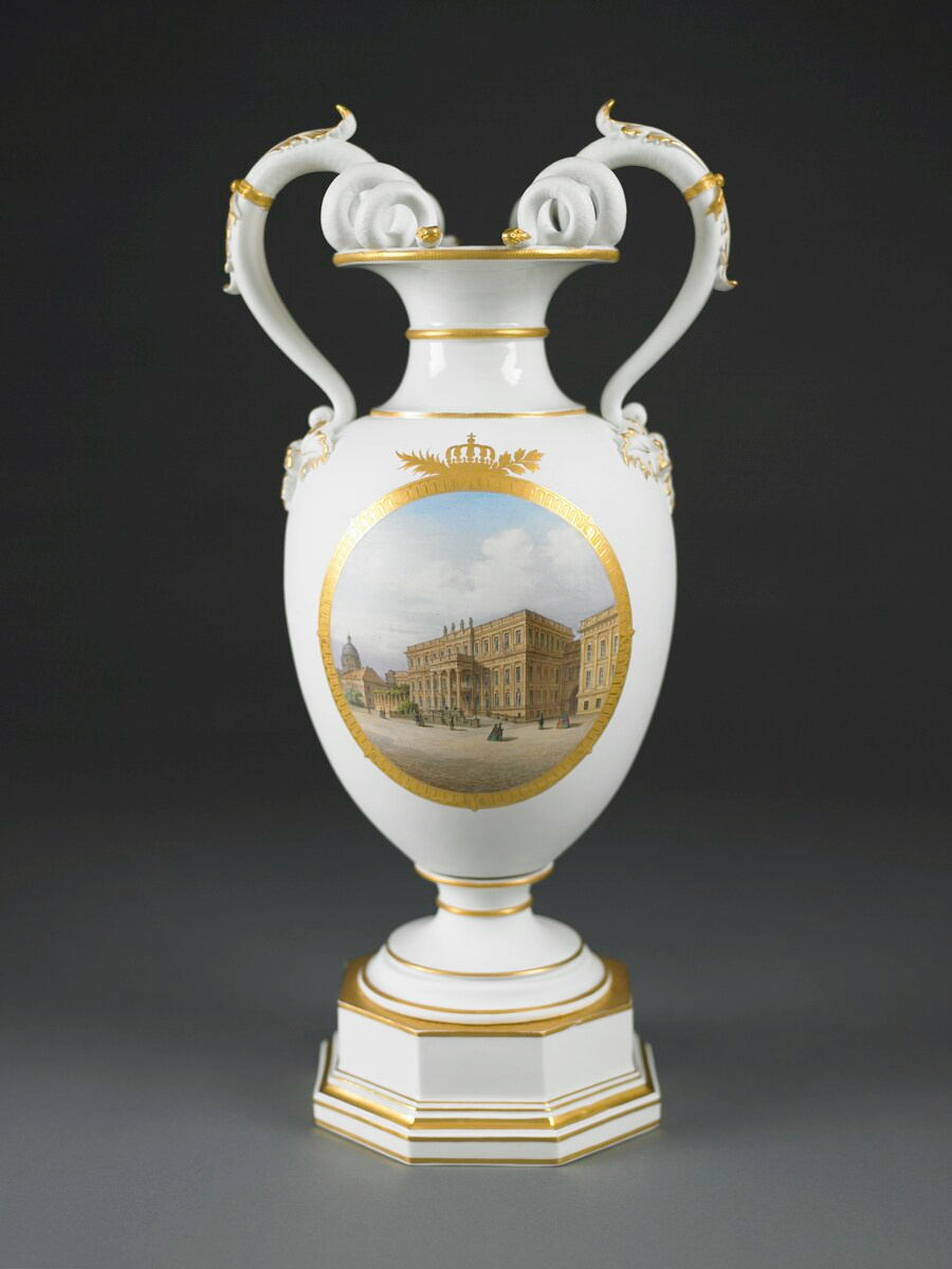 A vase made by the Royal Porcelain Manufactory in Berlin. The vase depicts the Kronprinzenpalais.